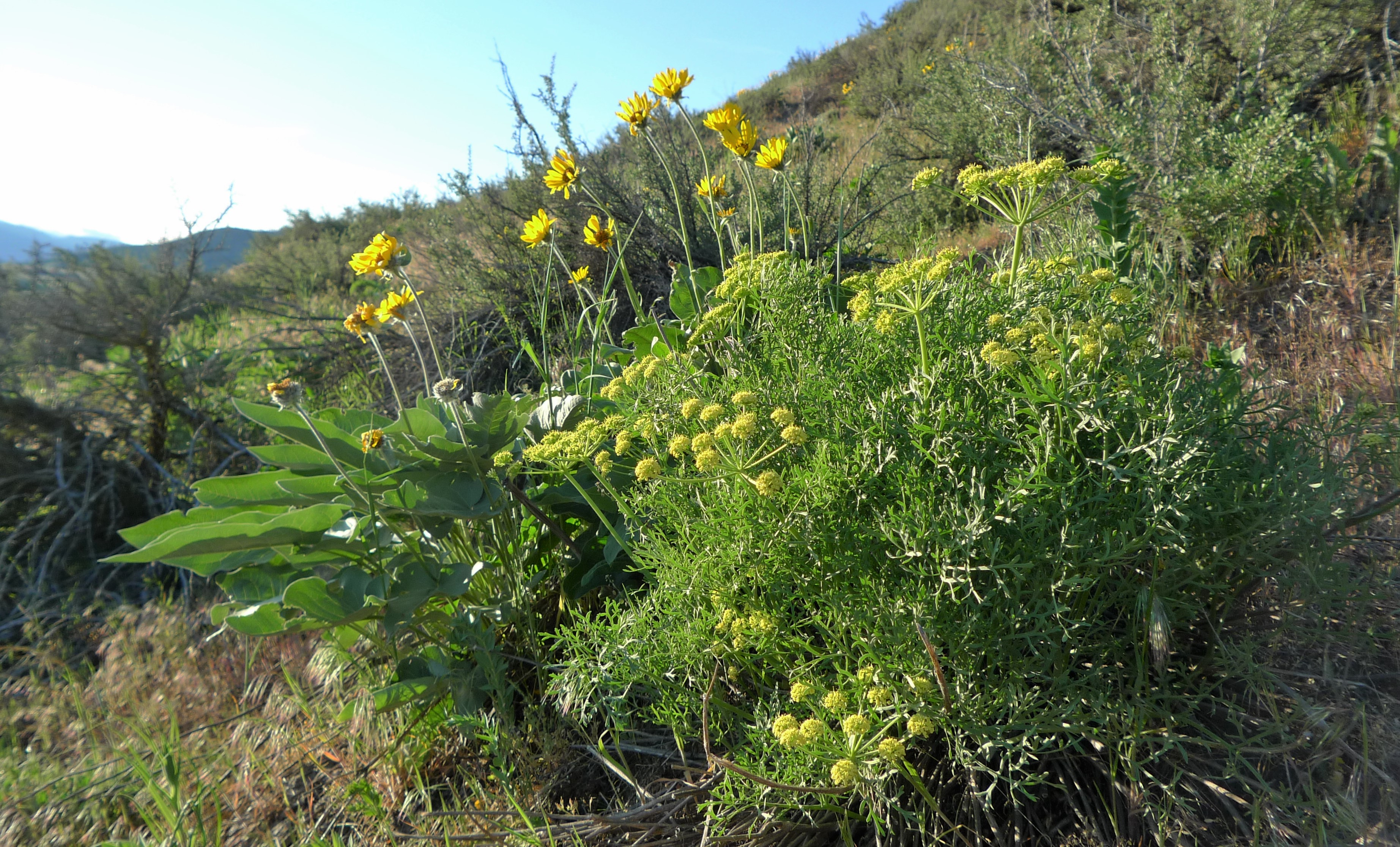 Lomatium thompsonii near Dryden, Chelan County Washington